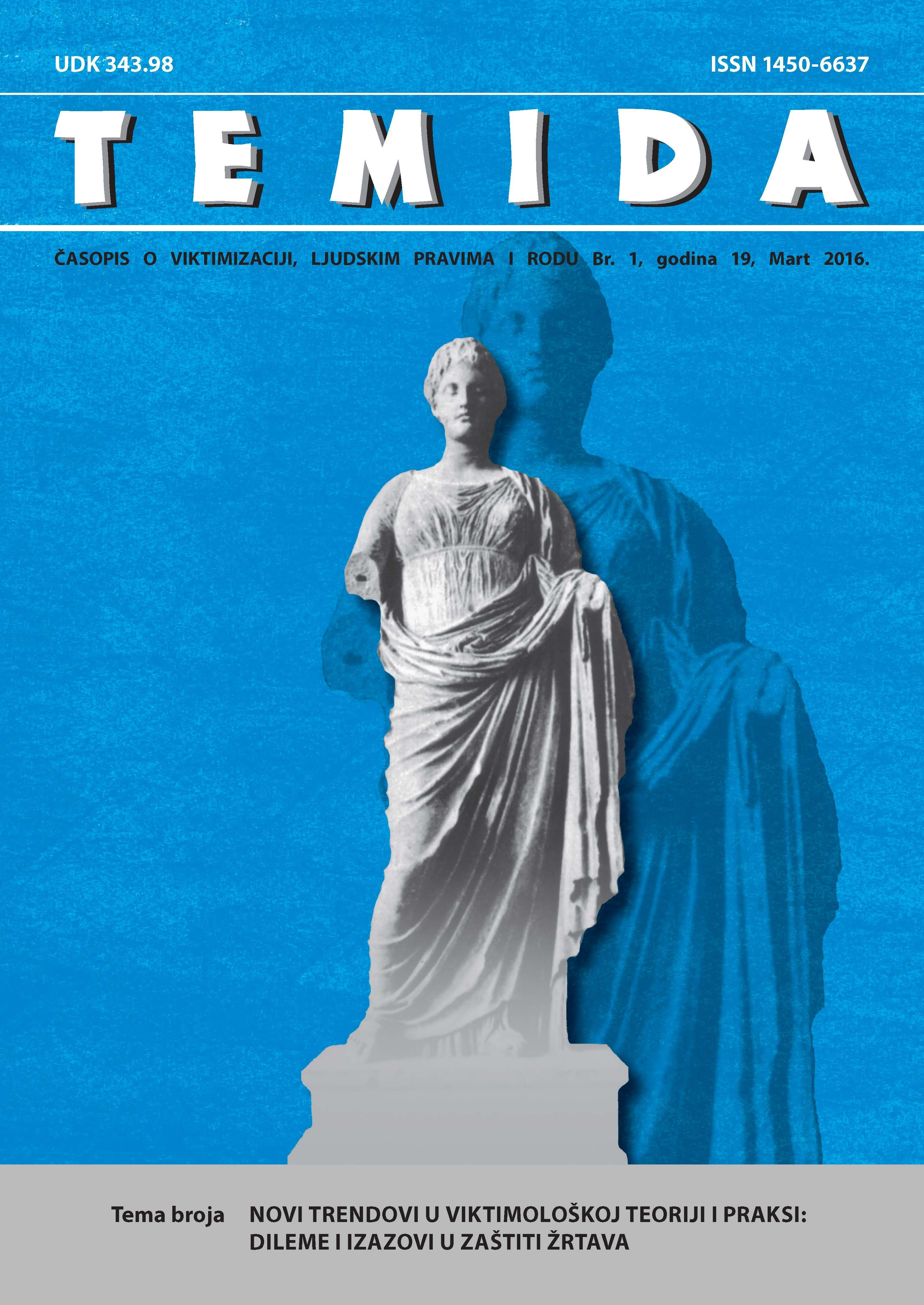 Front page